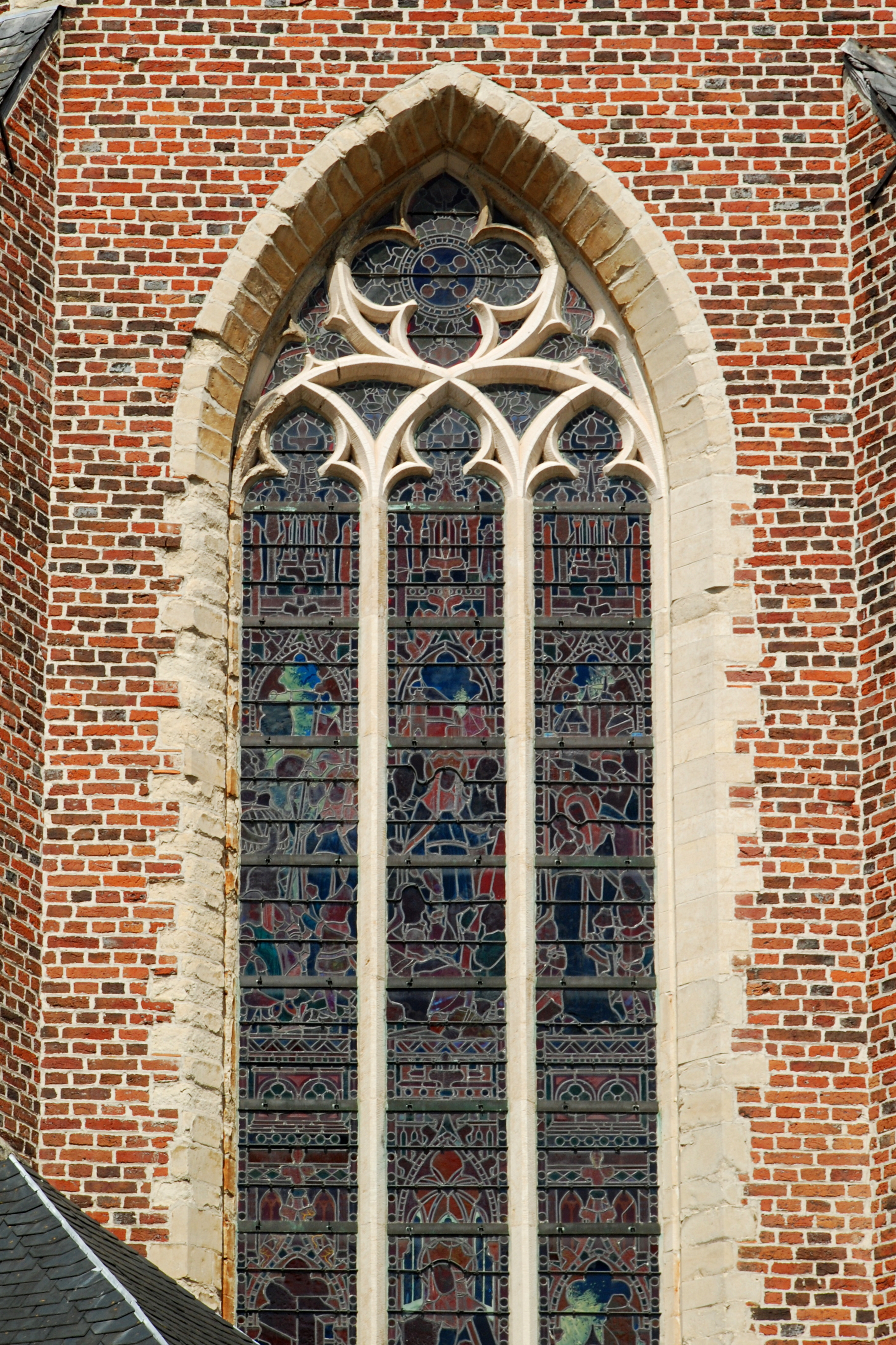 Belgium - Leuven - Chapel of the Romanesque Portal